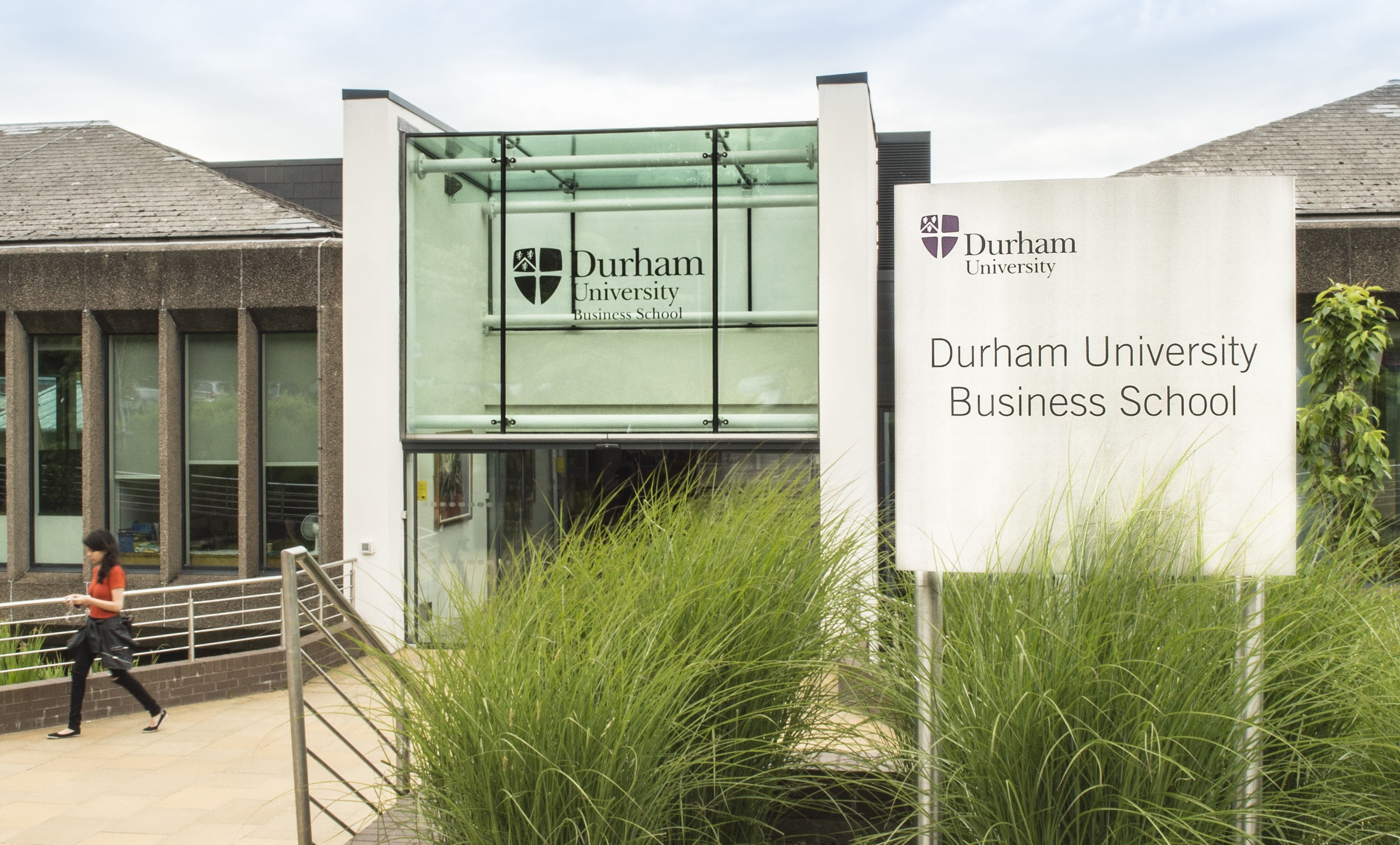 A large photo of the front entrance of the Business School at Mill Hill Lane